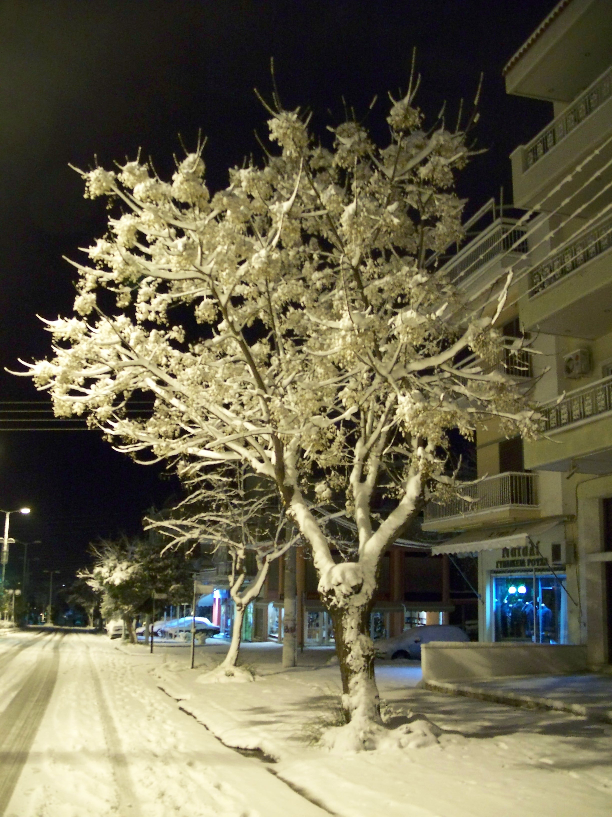 A snowey night in Athens.